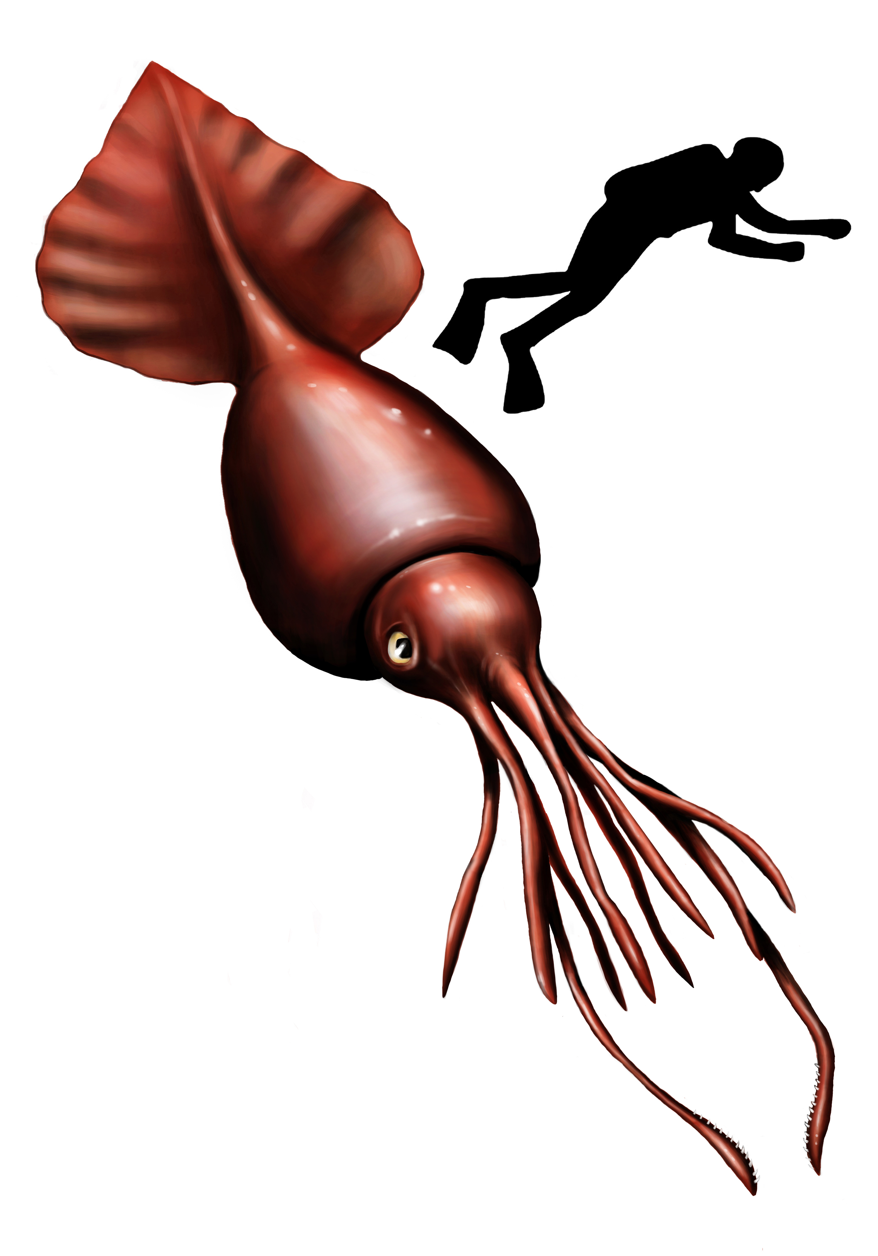 Colossal squid Mesonychoteuthis hamiltoni estimated at 10 m length, compared in size with a human.